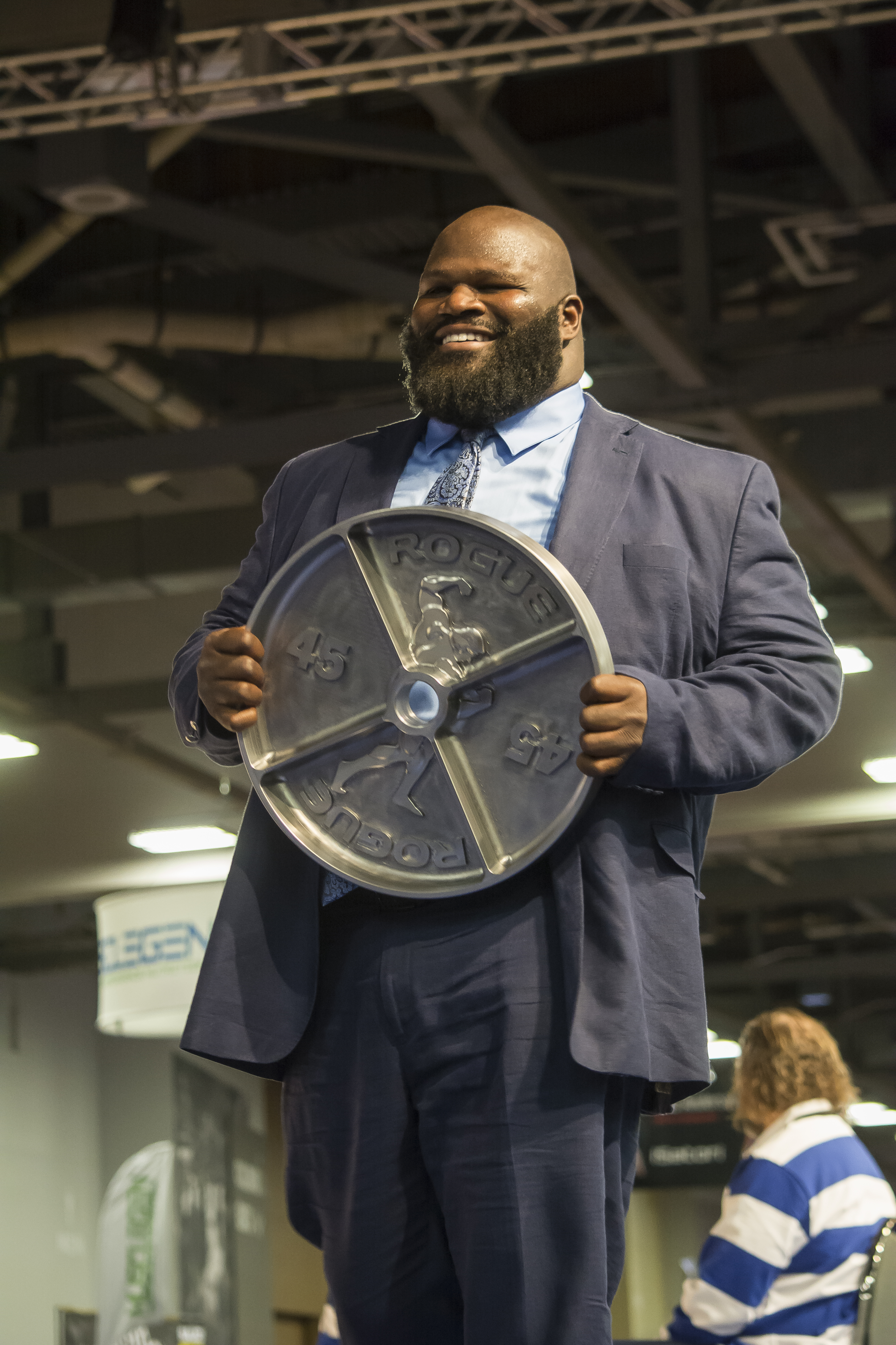 Aronald Classic Coulumbus, Ohio USA 2017